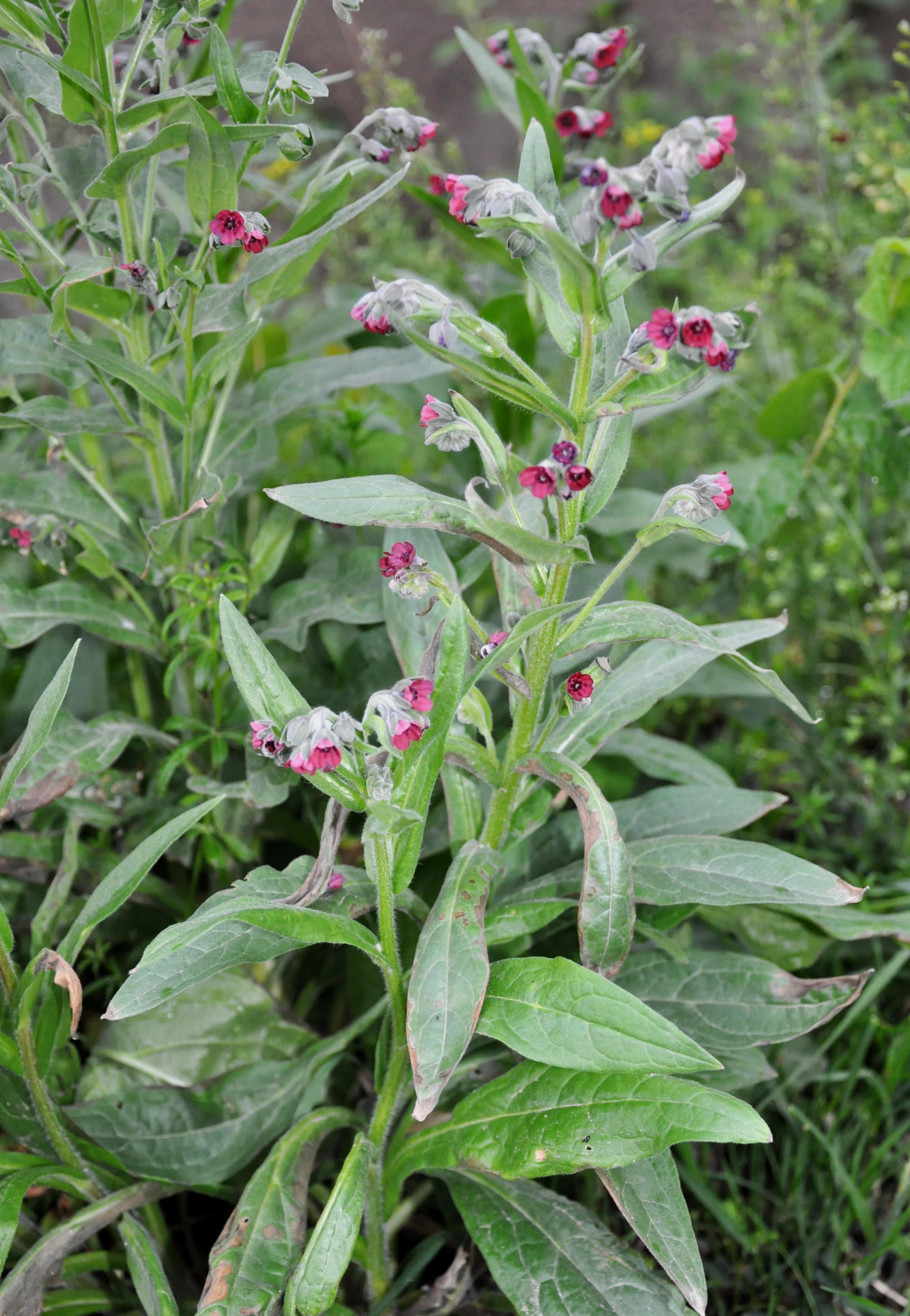 Taken in Racha, Shkmeri